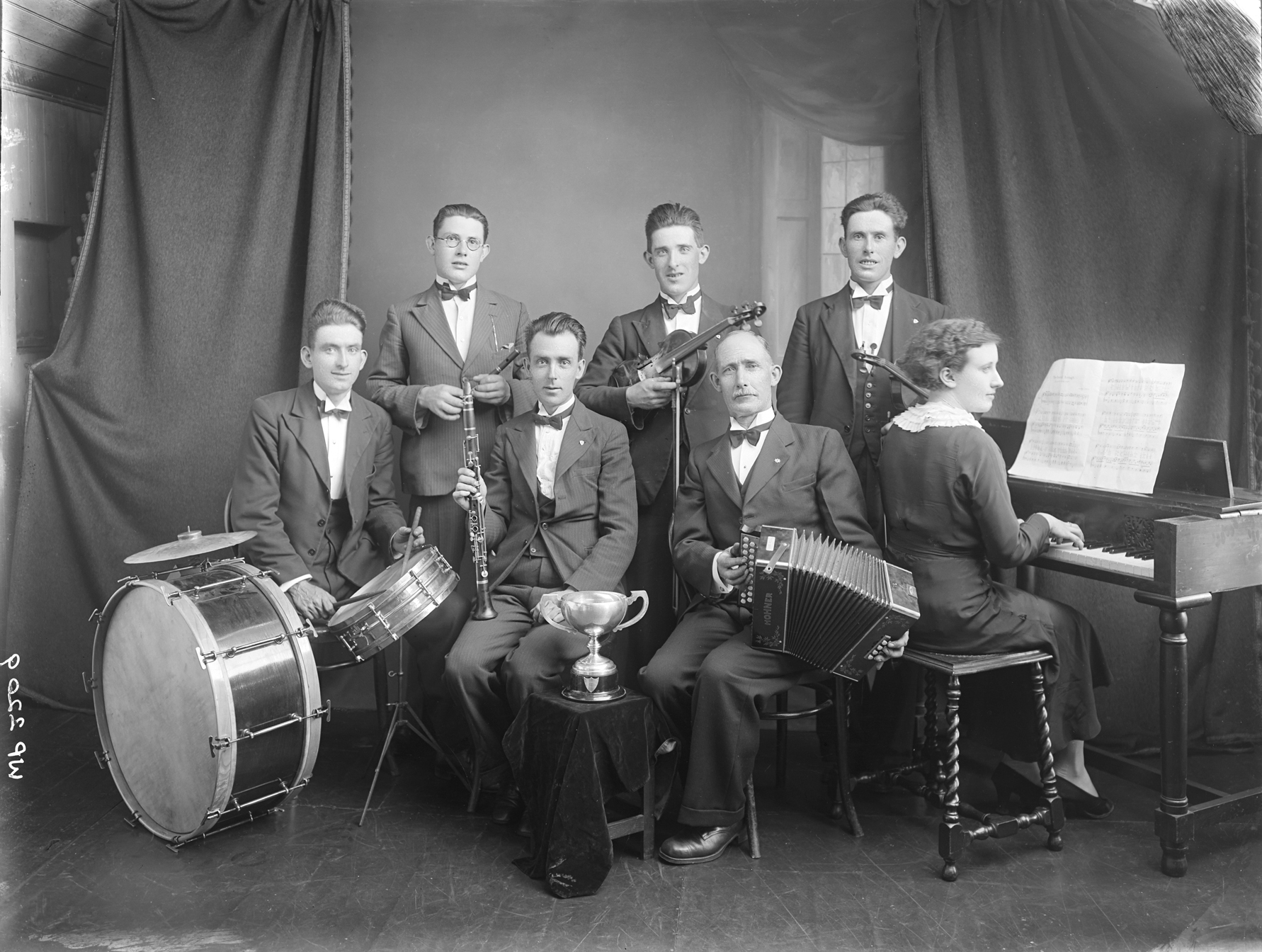 Creator: H. Allison & Co. Photographers Date: c.1920 Original Format: Glass Plate Negative, 9.5 X 7.5 inches Description: Group portrait of musicians with instruments and trophy. PRONI Ref: D2886/D/4 Copying and copyright: Please For Copy Orders, contact